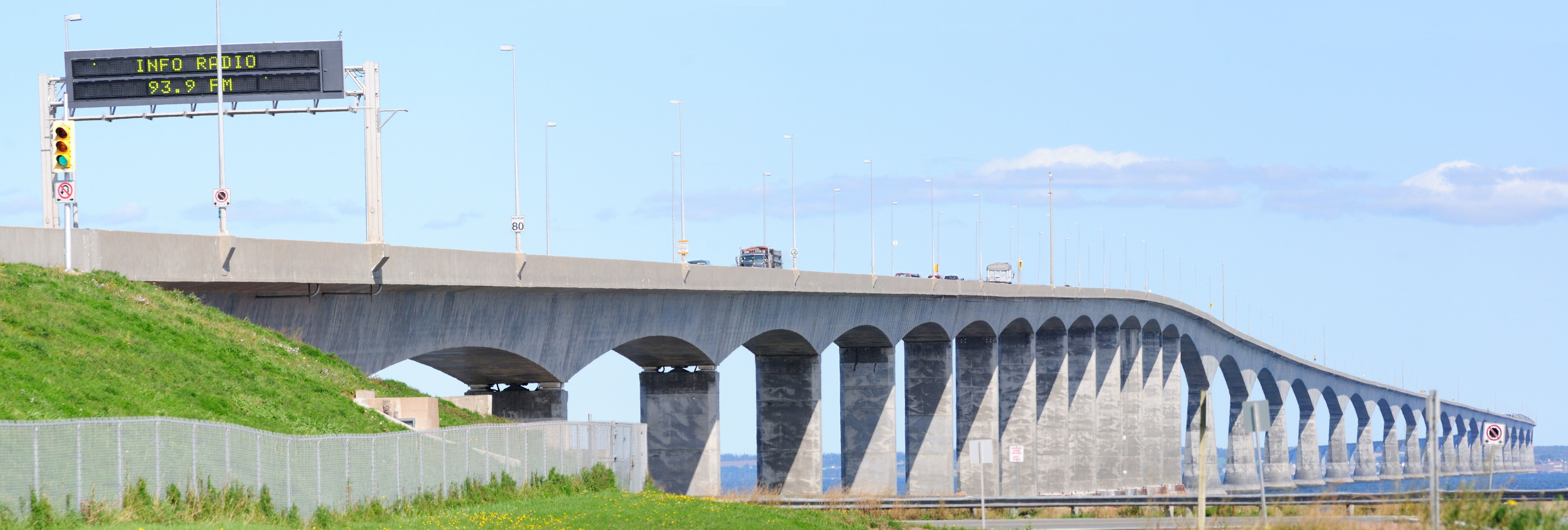 Confederation Bridge